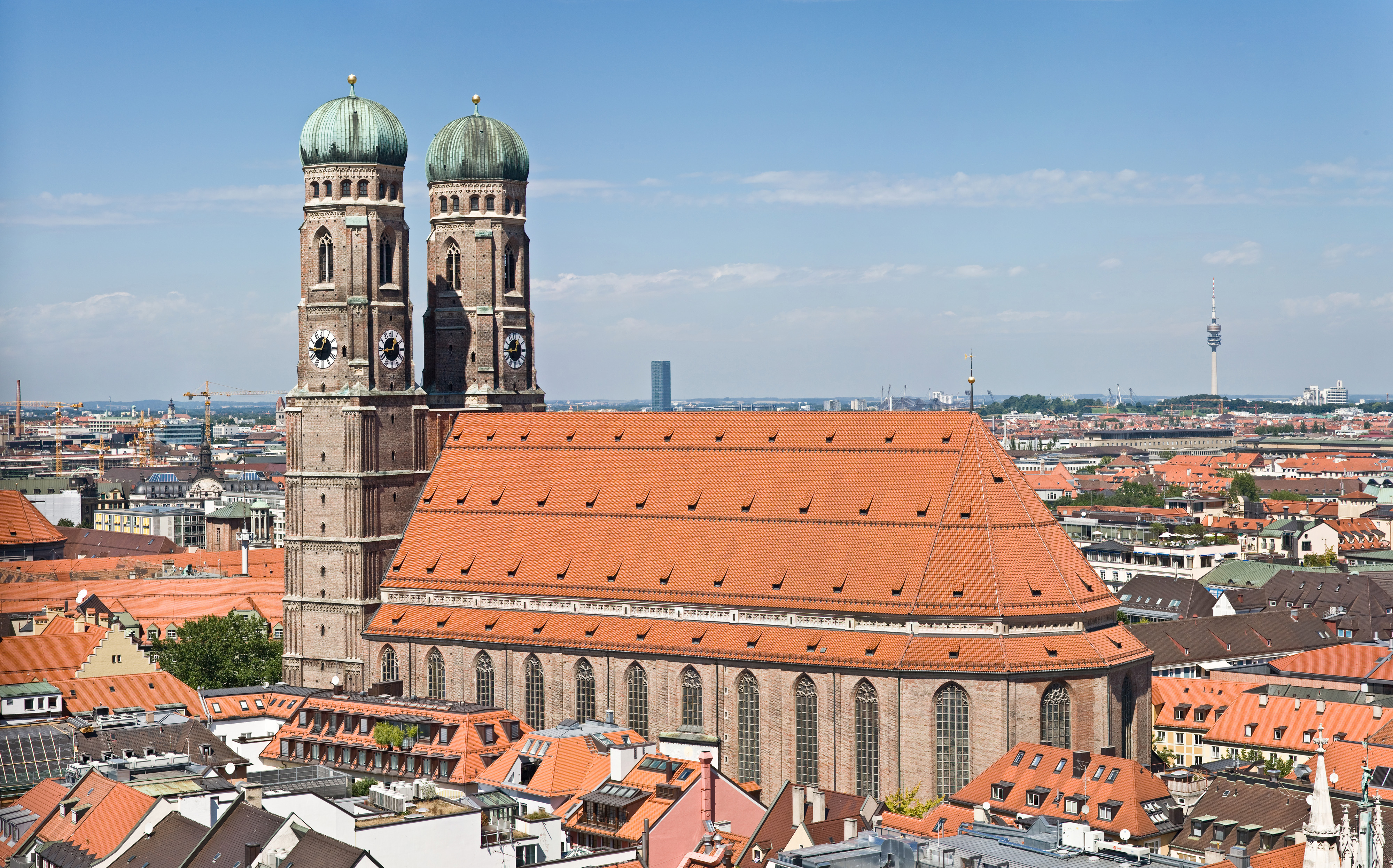 Frauenkirche (Church of Our Blessed Lady) in Munich, Germany, as viewed from the tower of Peter's Church. Taken by myself with a Canon 5D and 24-105mm f/4L IS lens.